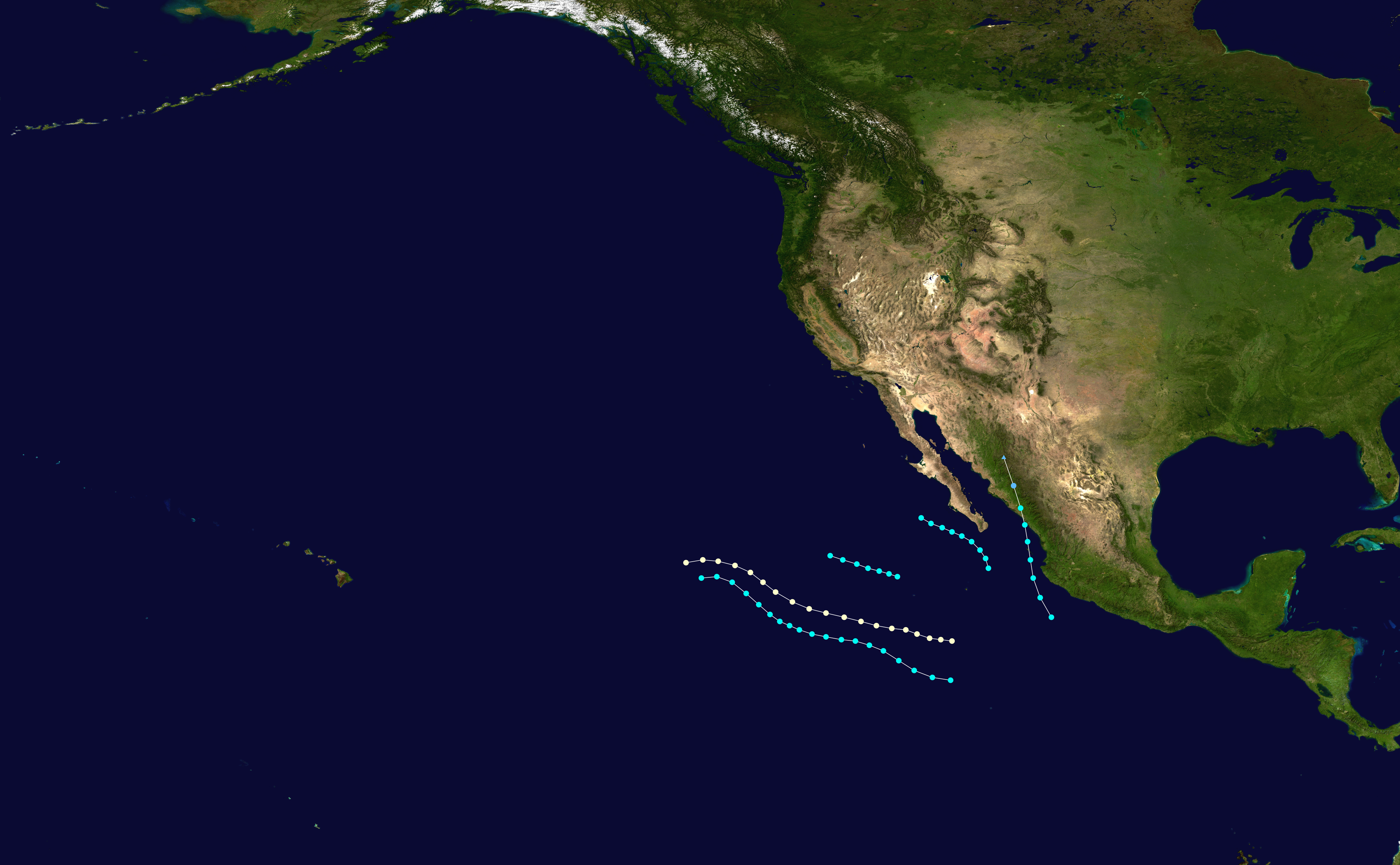 This map shows the tracks of all tropical cyclones in the 1964 Pacific hurricane season. The points show the location of each storm at 6-hour intervals. The colour represents the storm's maximum sustained wind speeds as classified in the Saffir-Simpson Hurricane Scale (see below), and the shape of the data points represent the type of the storm. Saffir–Simpson hurricane wind scale Tropical depression≤38 mph≤62 km/h Category 3111–129 mph178–208 km/h Tropical storm39–73 mph63–118 km/h Category 4130–156 mph209–251 km/h Category 174–95 mph119–153 km/h Category 5≥157 mph≥252 km/h Category 296–110 mph154–177 km/h Unknown Storm typeTropical cycloneSubtropical cycloneExtratropical cyclone / Remnant low / Tropical disturbance